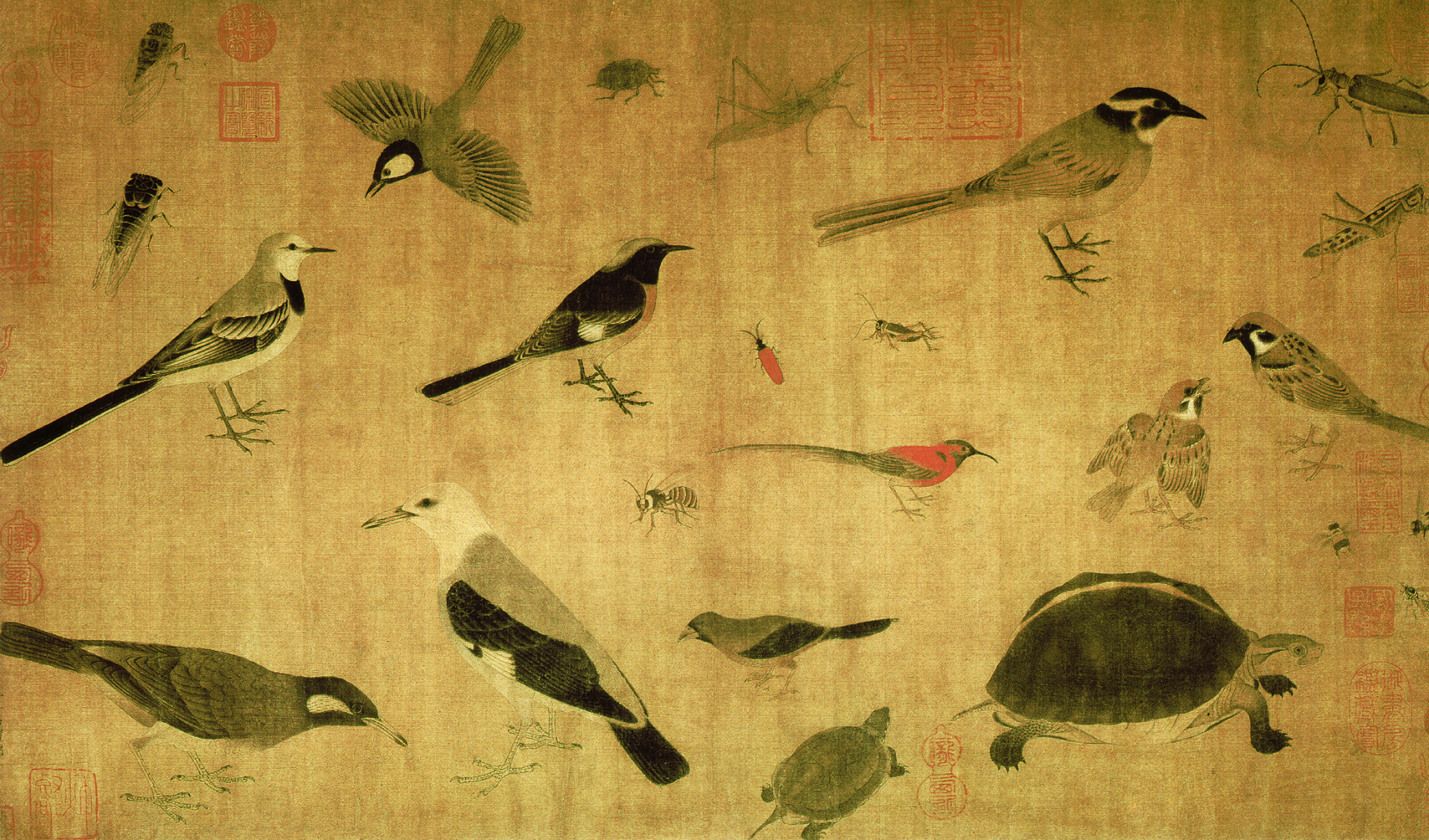 Sketches of Birds and Insects - 41.5 x 70 cm. Ink and color on silk. Located at the Palace Museum, Beijing.